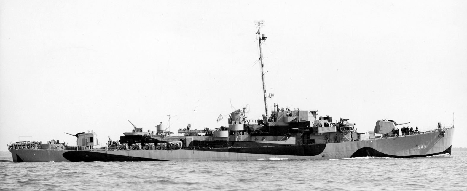 USS O'Flaherty (DE-340) off Boston, Massachusetts (USA), on 8 June 1944, wearing Camouflage Measure 31, Design 22D.